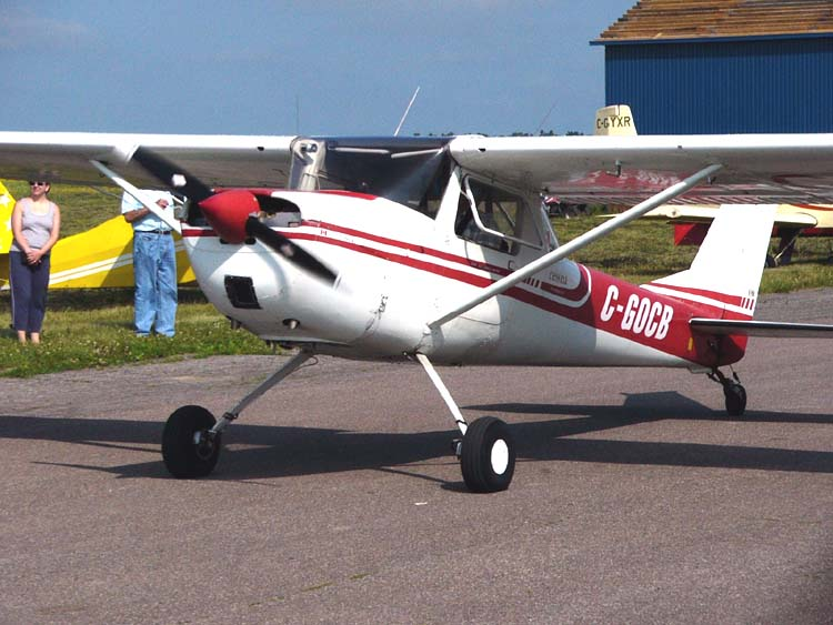 I took this photo of a Cessna 150 taildragger